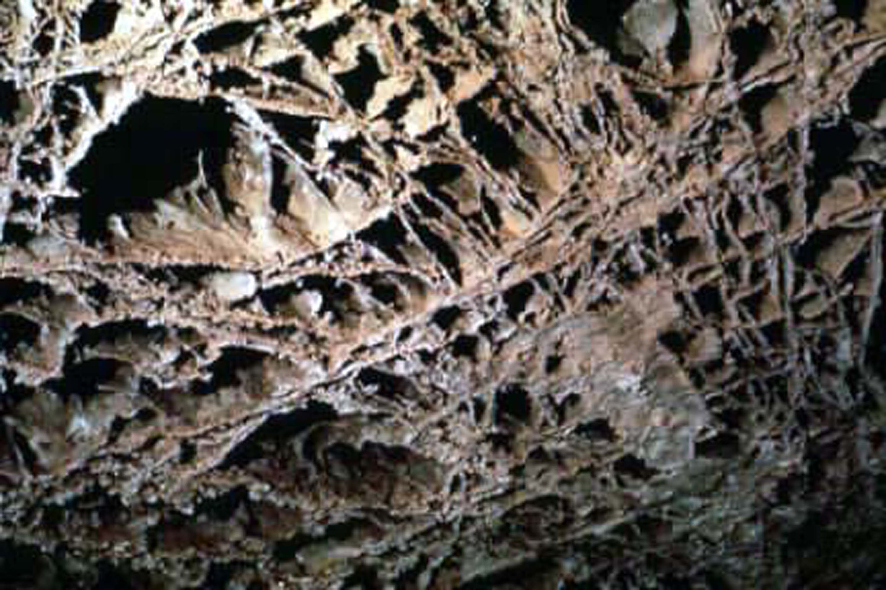 Boxwork in Wind Cave, Hot Springs, South Dakota.